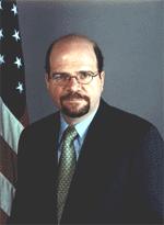 Christopher William Dell, Ambassador, Republic of Zimbabwe